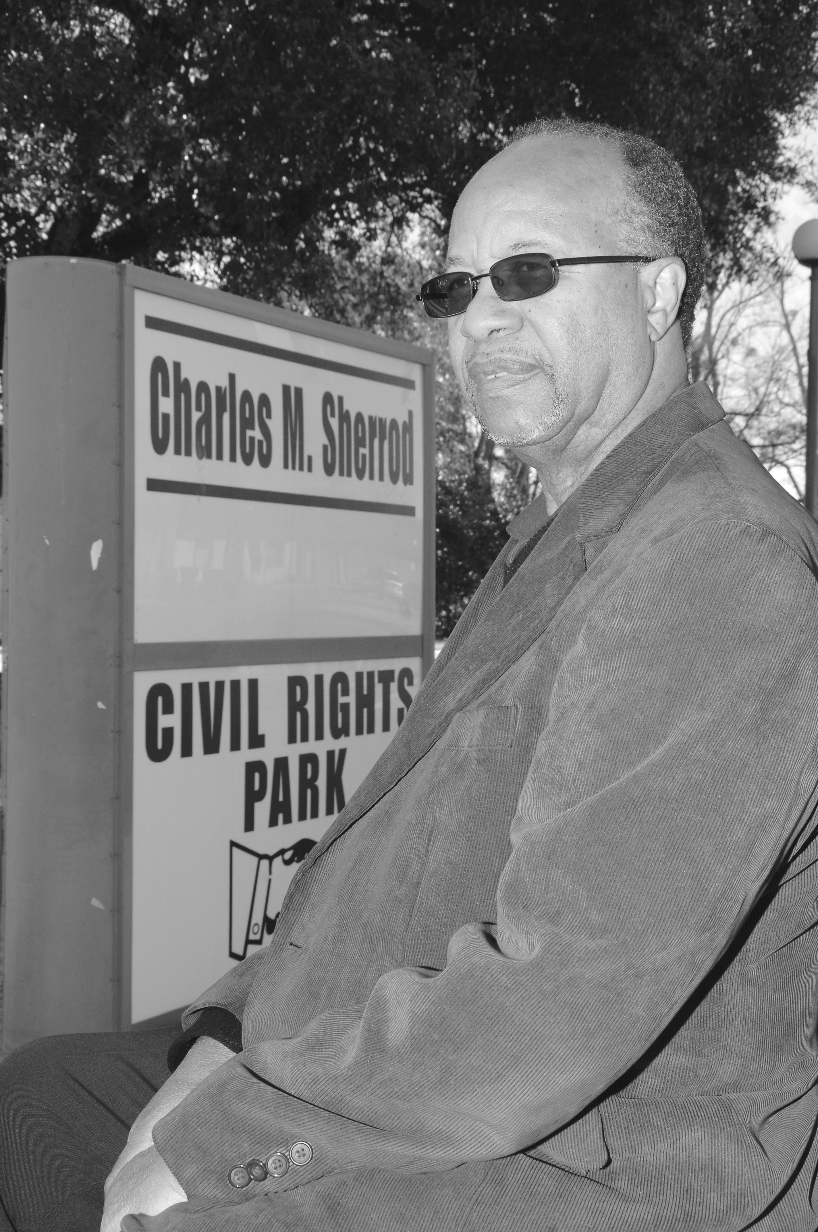 Charles M. Sherrod, a local civil rights activist, sits on a bench, Jan. 5, in the Civil Rights Park in Albany, Ga., that bears his name.